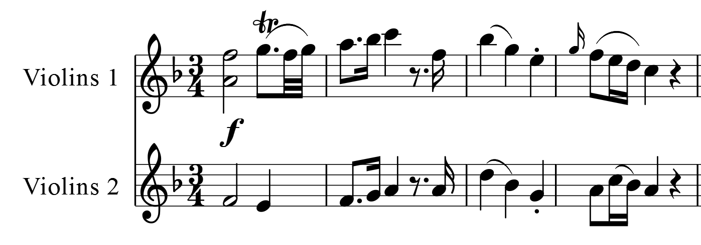 Joseph Haydn, Symphony No 17, first movement, bar 1-4